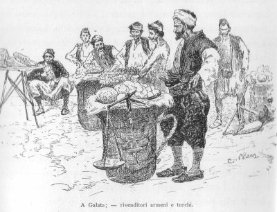 Biseo's drawing from De Amicis book "Costantinopoli" c1878